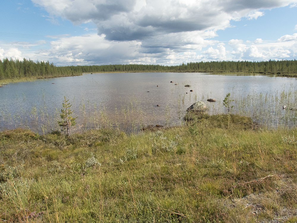 Lake Akkatjärnen close to the village Gitton in Arjeplog Municipality, Sweden.